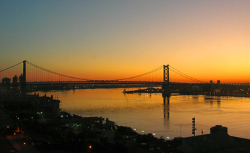 My photo of the Ben Franklin Bridge at sunrise, as seen from the Hyatt hotel at Penn's Landing